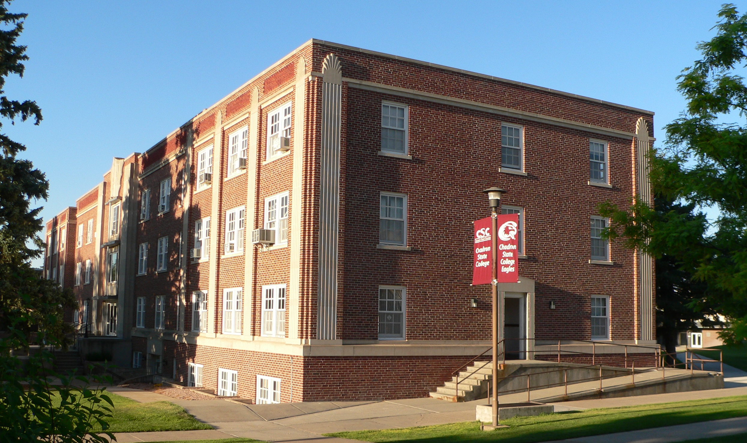 Crites Hall on the campus of Chadron State College in Chadron, Nebraska; seen from the southwest. The Art Deco building was constructed in 1938. It is listed in the National Register of Historic Places.